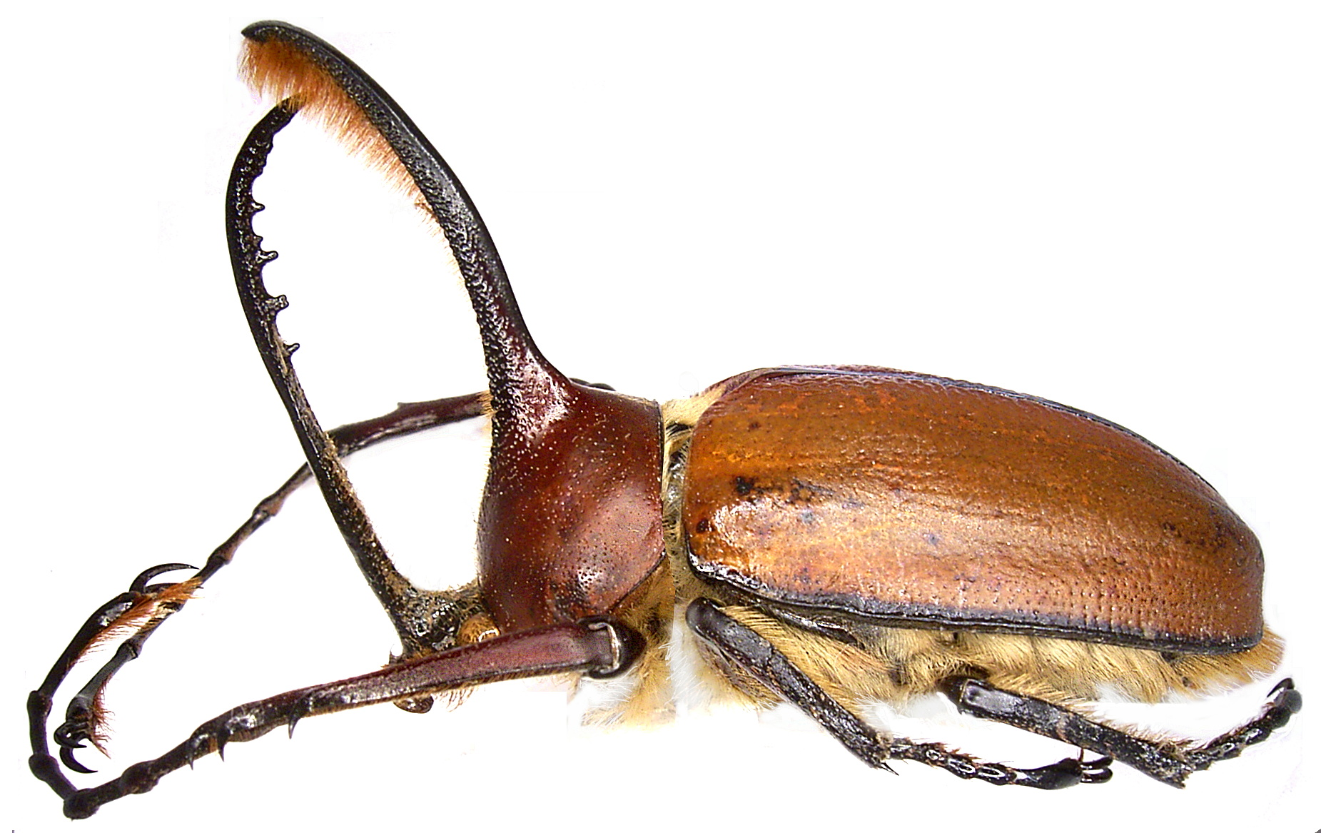 Golofa eacus